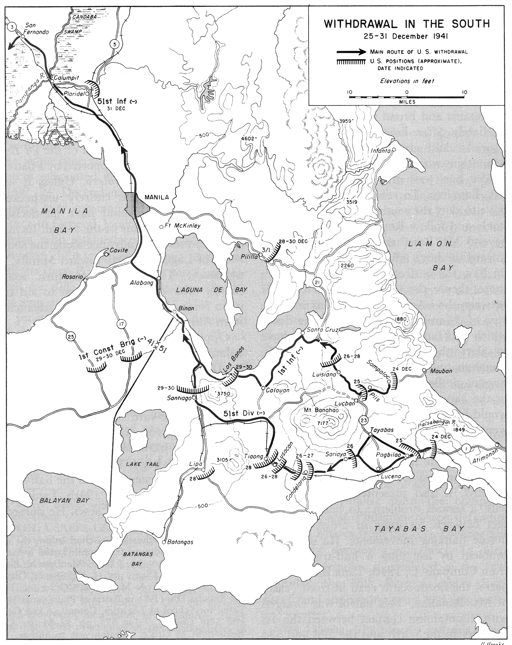 Withdrawal in Southern Luzon, Philippines, during the Japanese Invasion in December 1941